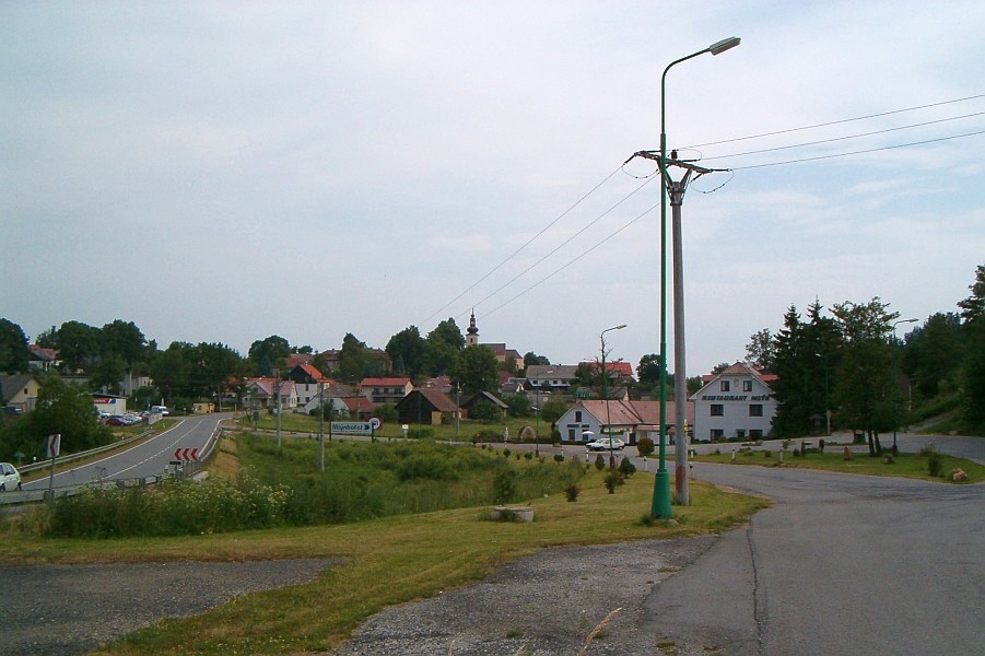 village Vílanec in Vysočina region, Czech Republic